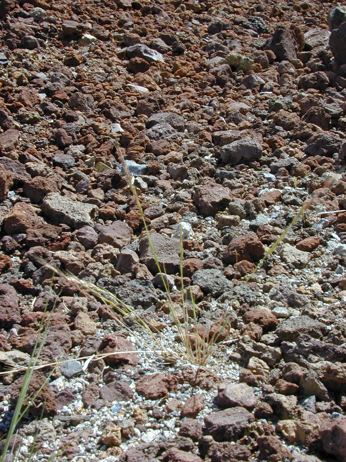 Vulpia bromoides (habit). Location: Maui, Science City